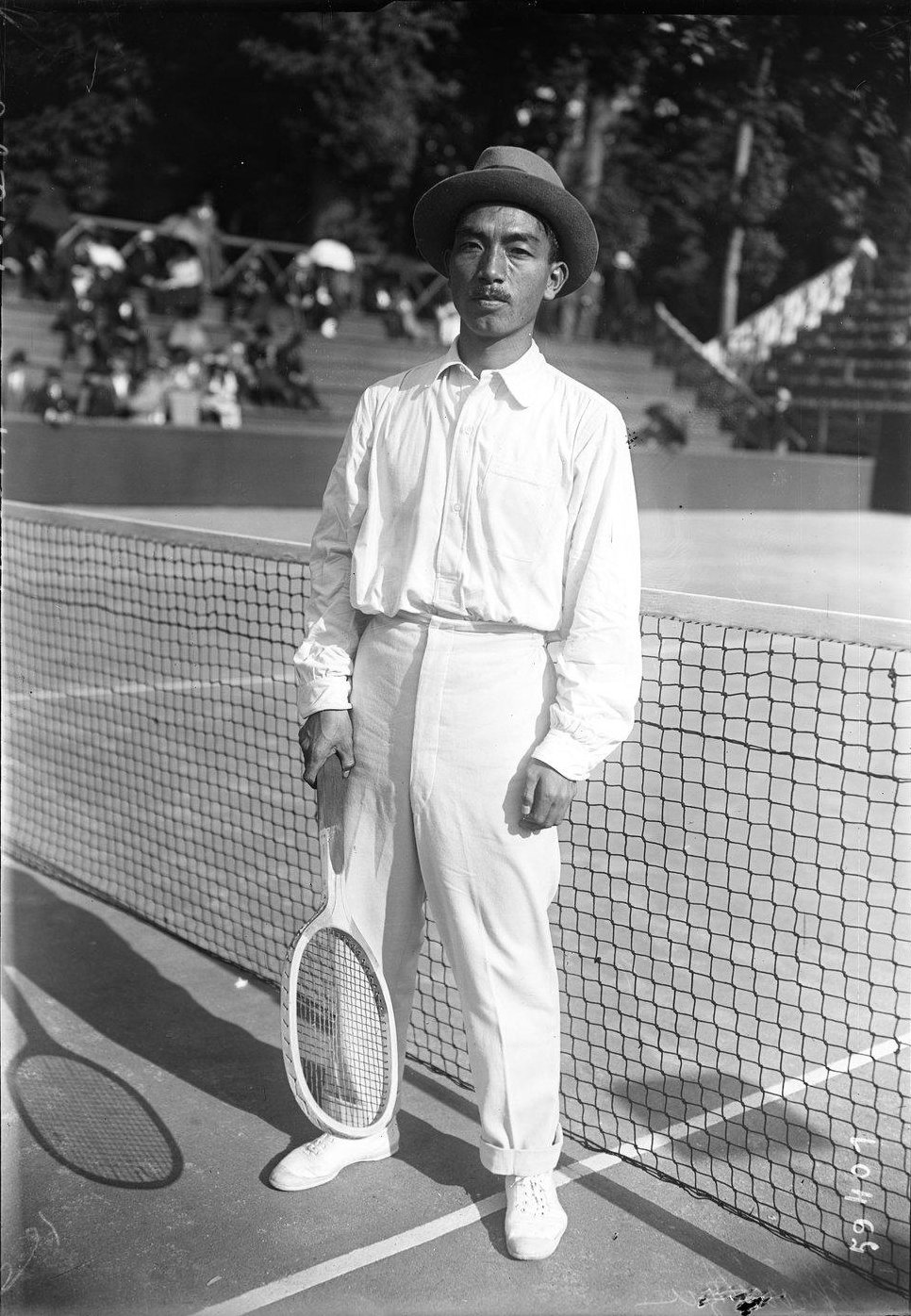 Japanese tennis player Zenzo Shimizu (清水善造) at the 1920 World Hardcourt Championships at Paris